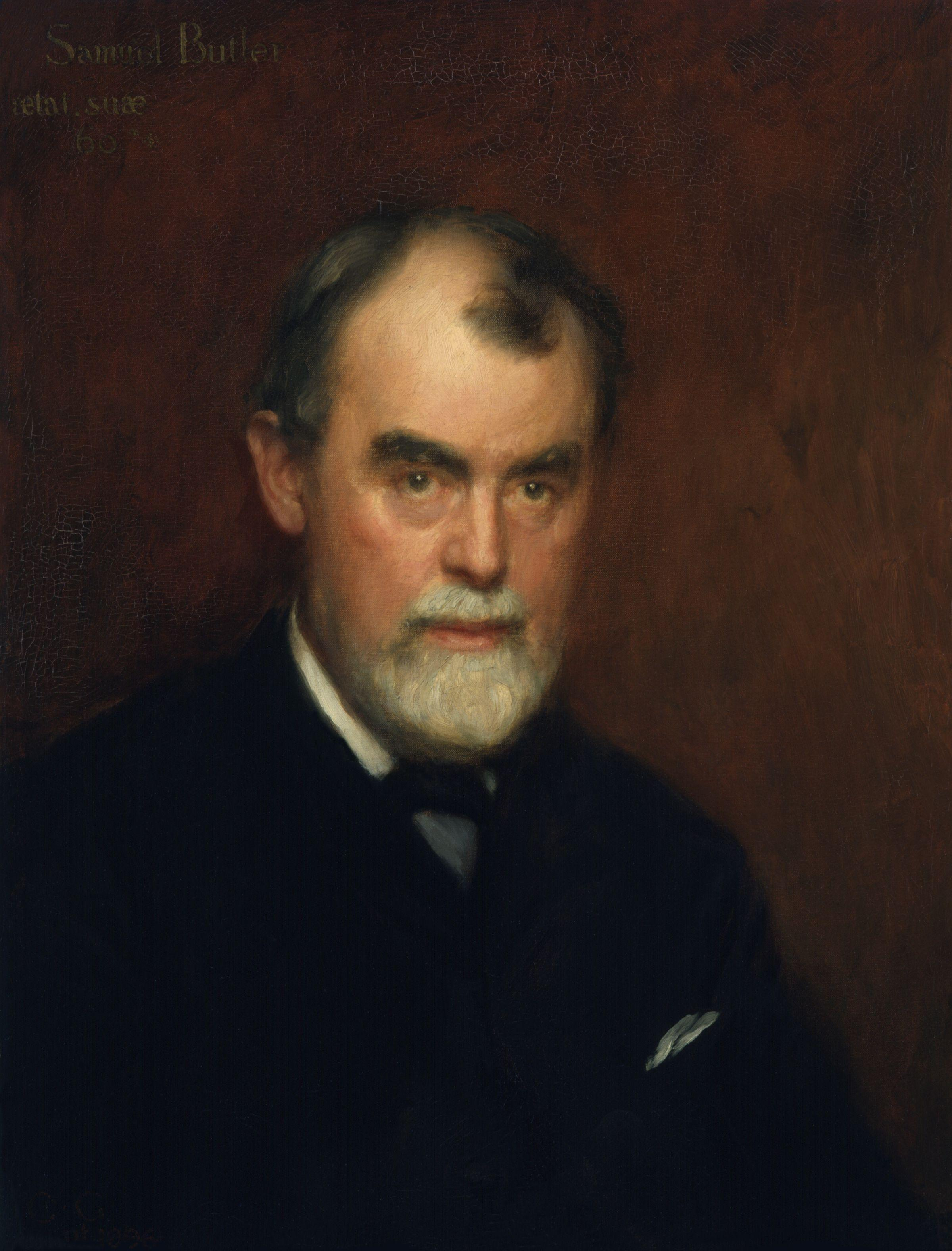 Samuel Butler, by Charles Gogin (died 1931), given to the National Portrait Gallery, London in 1911. All images in this batch have been confirmed as author died before 1939 according to the official death date listed by the NPG.